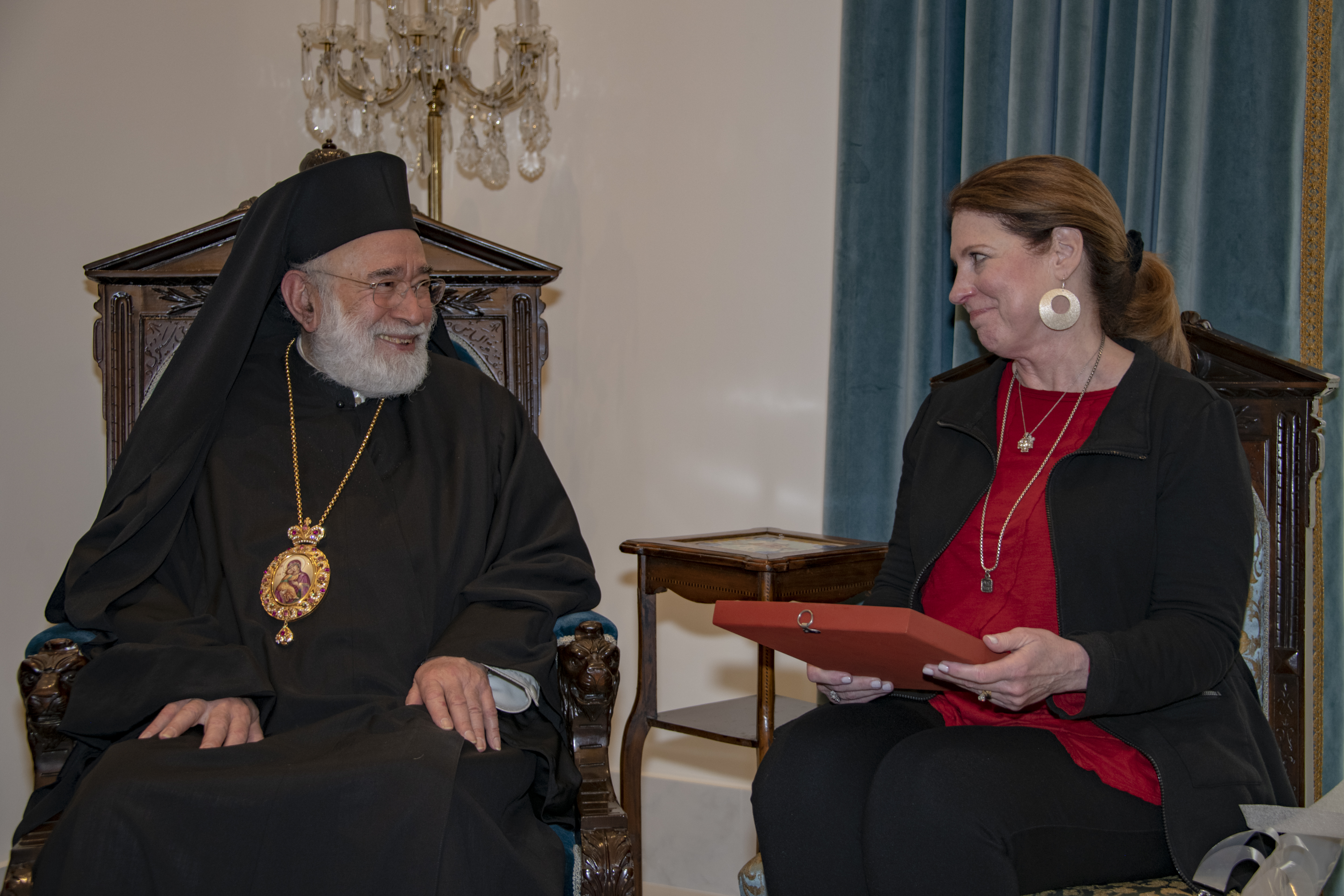 U.S. Secretary of State Michael R. Pompeo and Mrs. Susan Pompeo meet with Greek Orthodox Bishop Elias Audi in Beirut, Lebanon on March 23, 2019. [State Department photo by Ron Przysucha/ Public Domain]